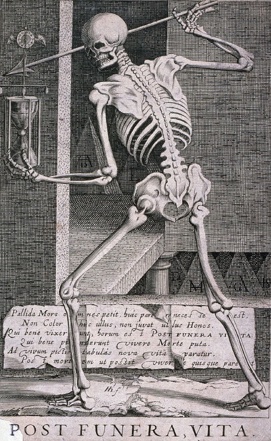 Engraving by Hendrick Hondius (I), 21 x 13.2 cm Pictorum aliquot celebrium praecipuae Germaniae Inferioris effigies (The Hague, 1610) Latin inscription: Post Funera Vita (After Burial, Life) Complete transcription: POST FUNERA VITA Pallida Mors omnes petit, huic parere necesse est. Non Color hic ullus, non juvat ullus Honos. Qui bene vixerunt, horum est POST FUNERA VITA: Qui bene pinxerunt vivere Morte puta. Ad vivum pictis tabulas nova vita paratur. Post mortem ut possit vivere quisque parent.